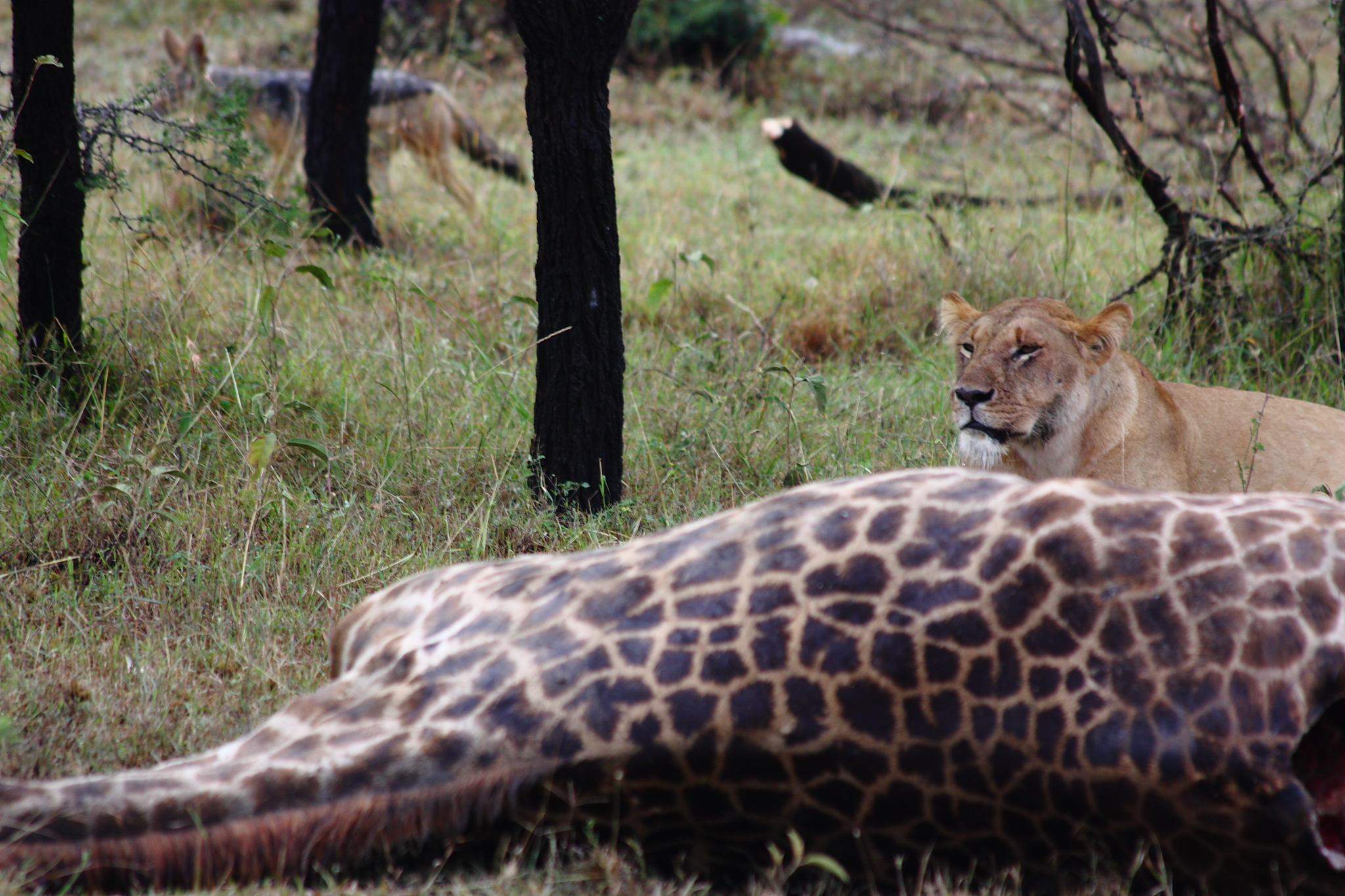 A lioness with her giraffe kill in the Naboisho Conservancy in Maasai Mara, Kenya. A jackal can be seen lurking in the background. At the bottom right one can see the hole made in the giraffe's skin by the lions to access its meat.